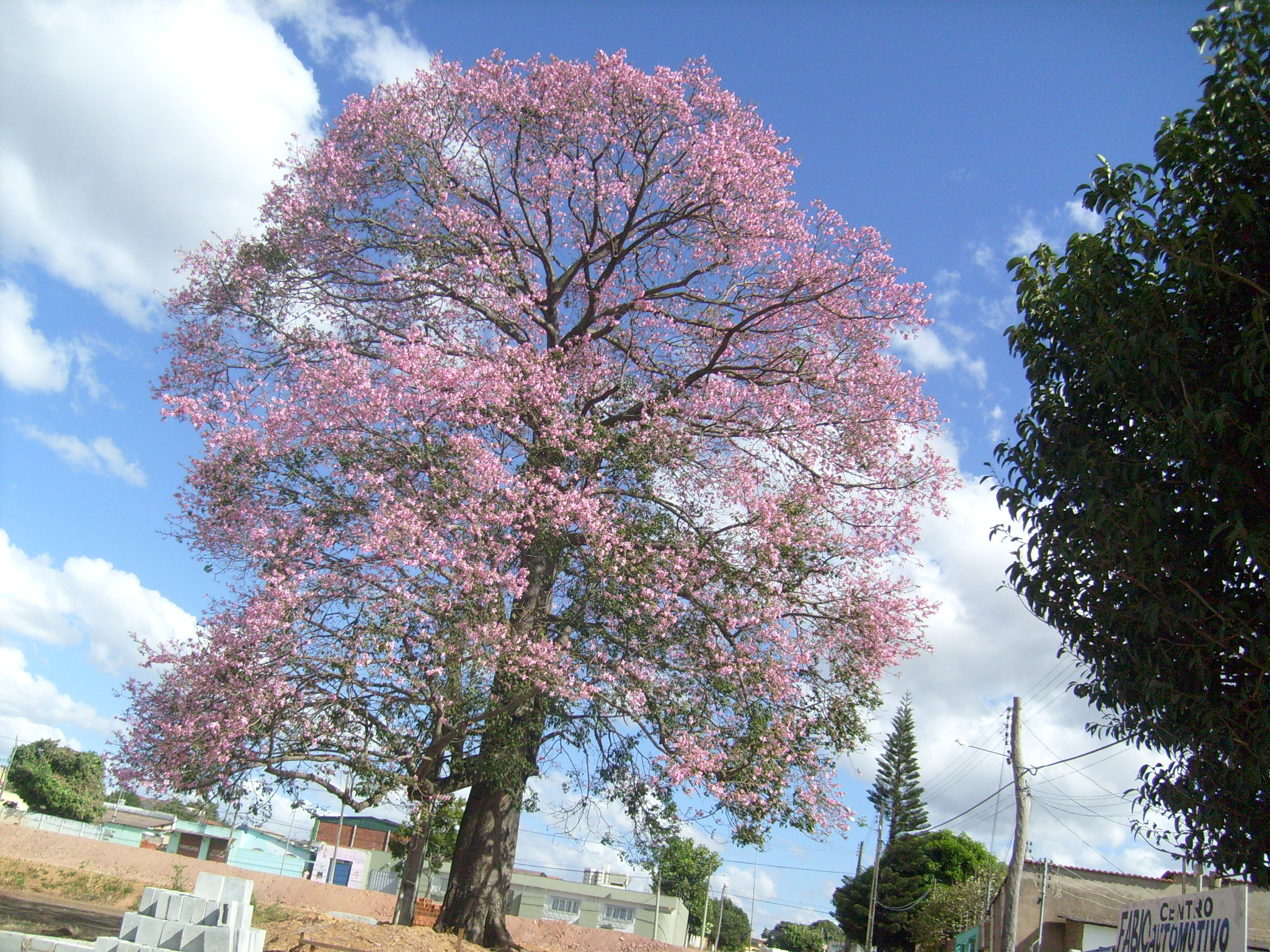 This is a tree in Anápolis, Brasil